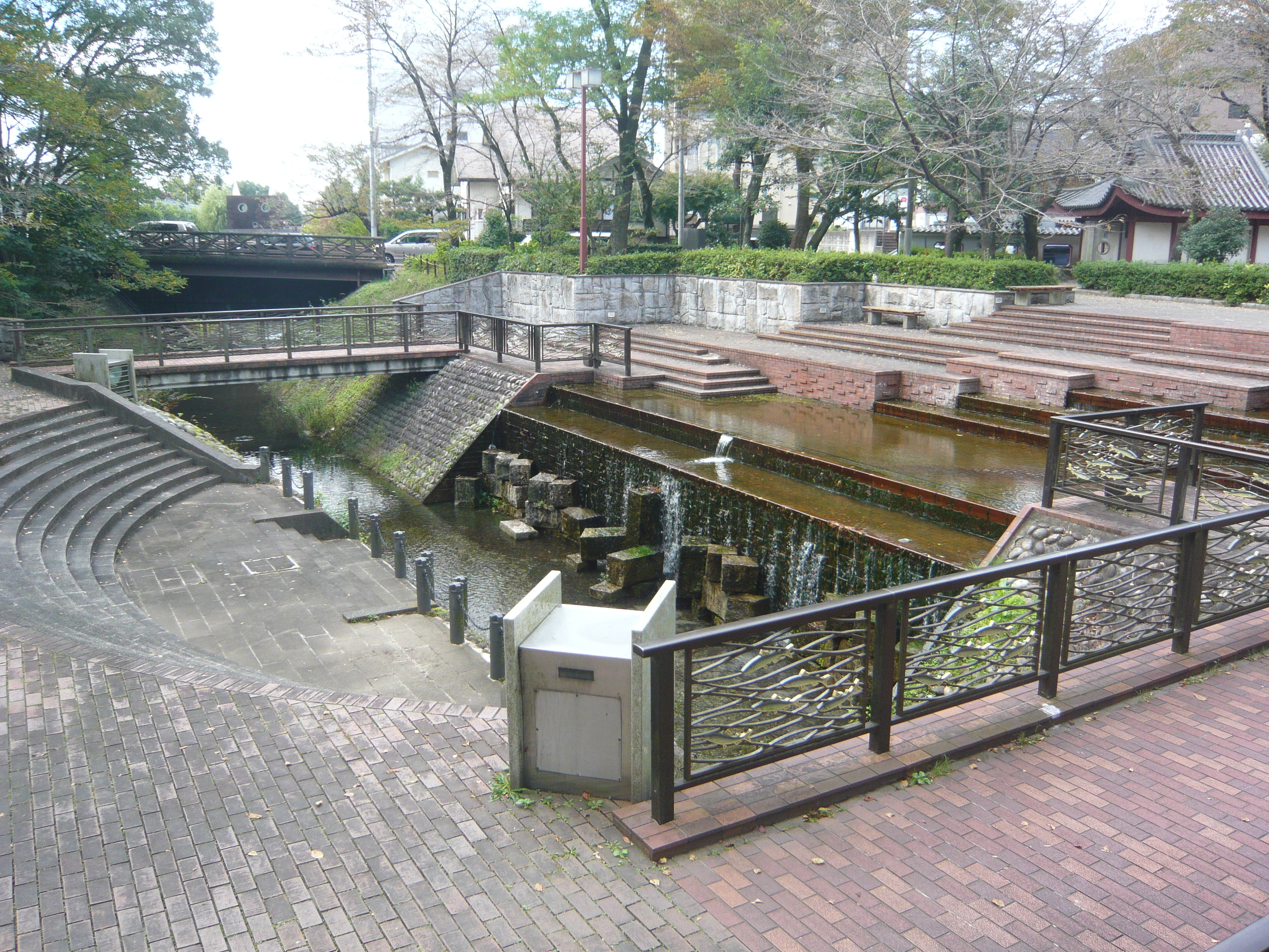 Minato Community Watercourse 湊コミュニティ水路（湊コミュニティ水路）,Gifu,Gifu,Japan（岐阜県岐阜市）で撮影。